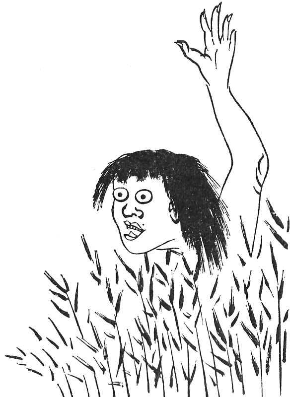 Yama-waro (山わろ, List of legendary creatures from Japan) from the Sōzan Chomon Kishū (想山著聞奇集)